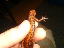 Picture of the red belly from Cynops pyrrhogaster sasayamae male